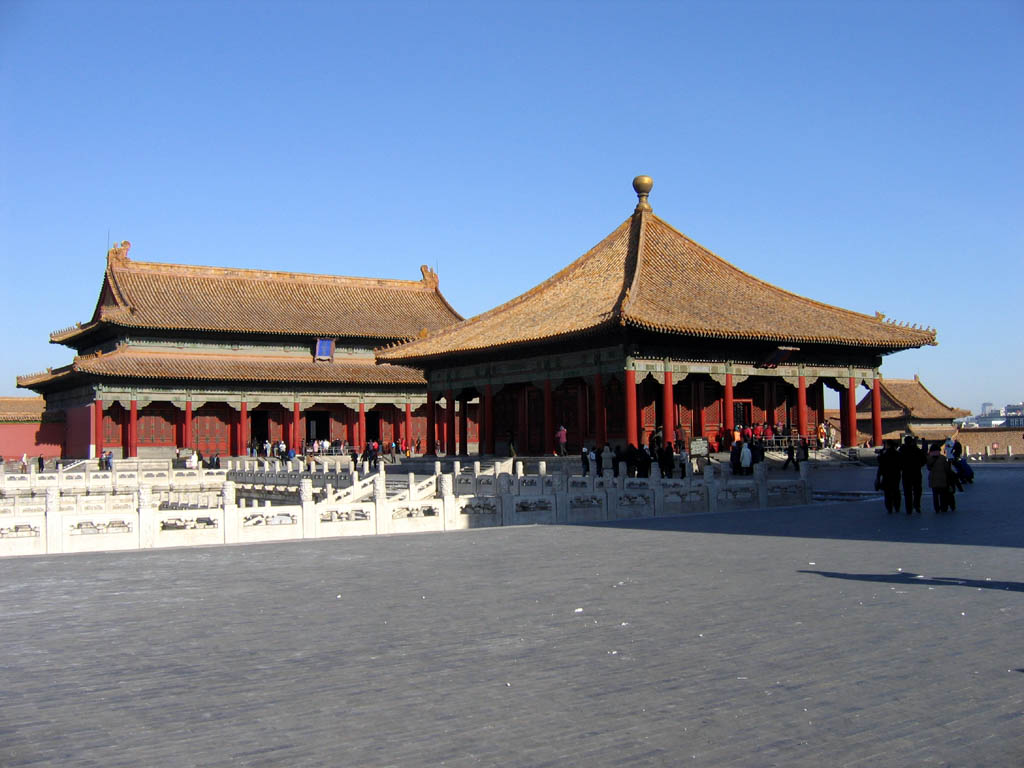 The Forbidden City or Forbidden Palace (Chinese: 紫禁城; pinyin: zǐ jìn chéng; literally "Purple Forbidden City"), located at the exact center of the ancient City of Beijing, was the imperial palace during the mid-Ming and the Qing dynasties.